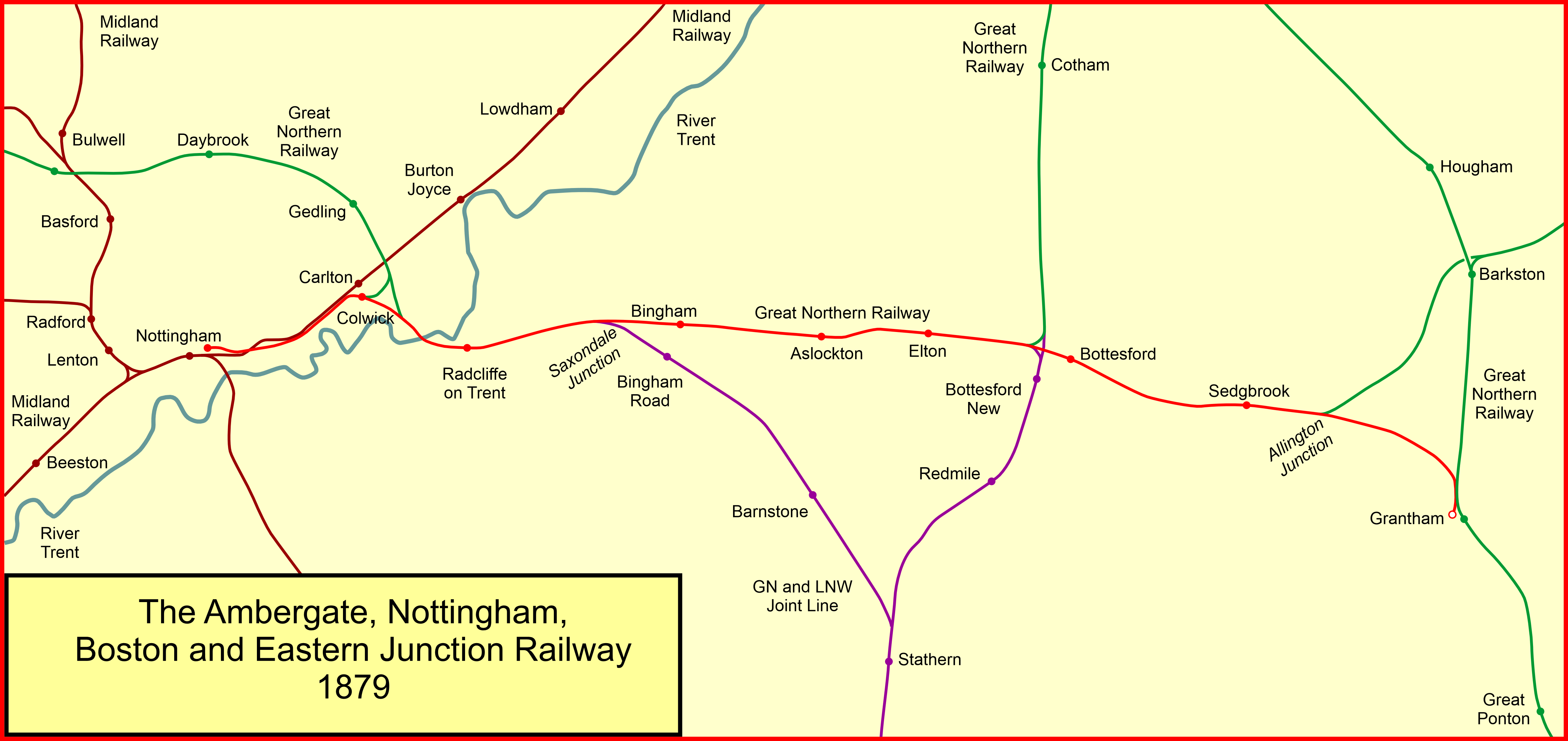 System map of the Nottingham and Grantham railway line in England in 1879, formally known as the Ambergate, Nottingham, Boston and Eastern Junction Railway leased by the Great Northern Railway